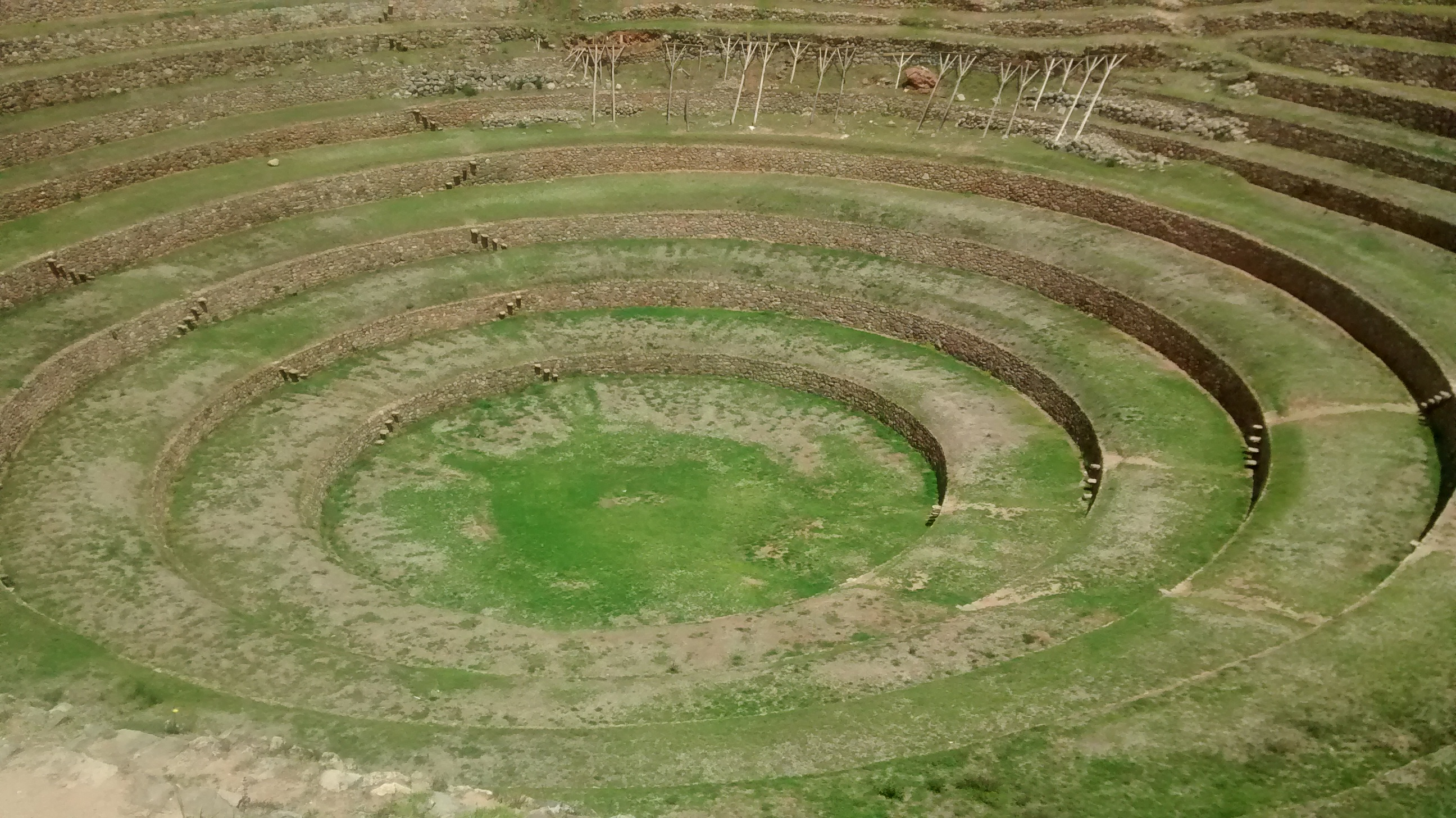 pendiente 5